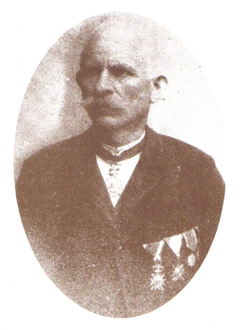 Kole Rašic, a leader of rebellion in the Southern Pomoravlje